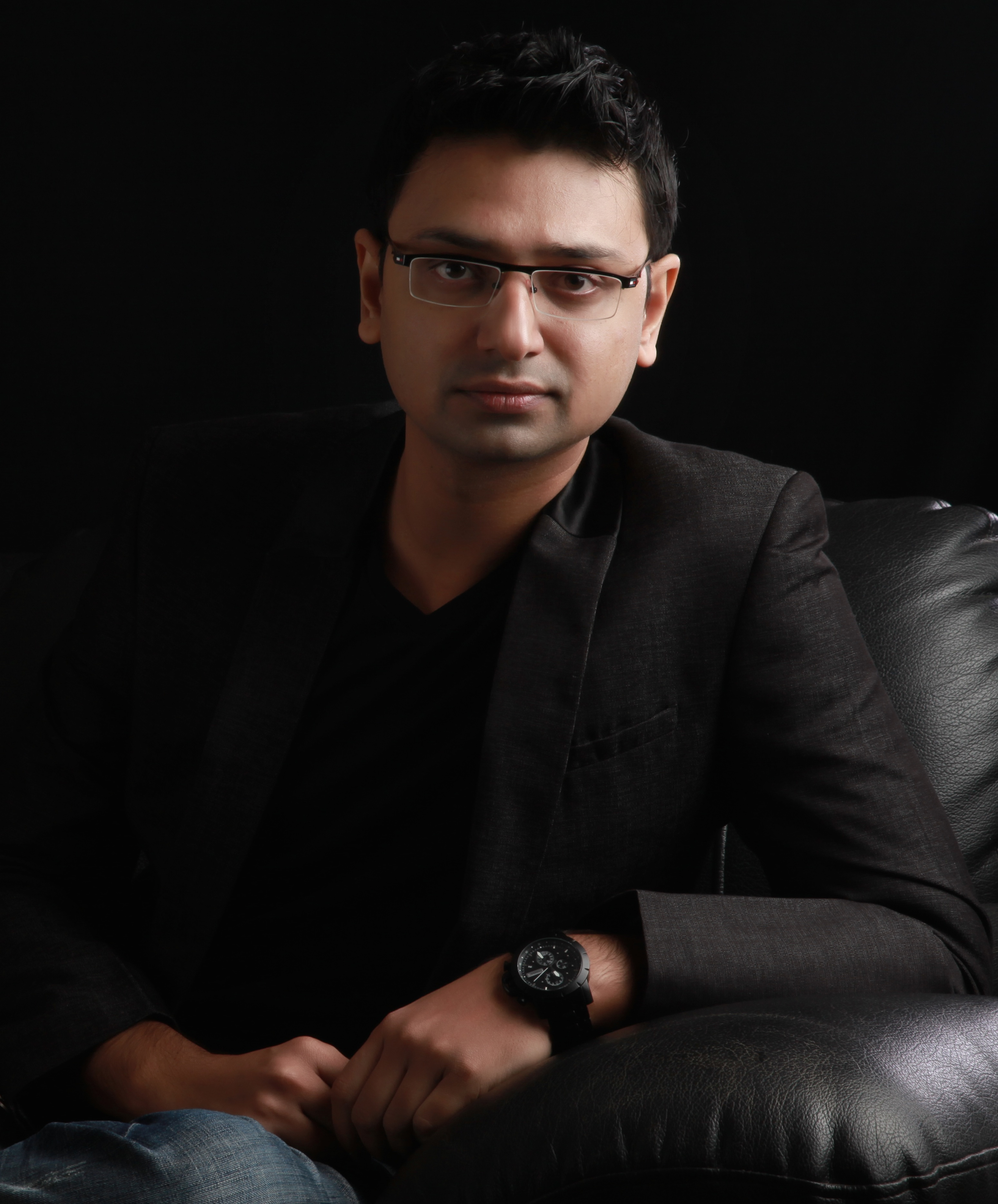 Vishwas Mudagal, author of Losing My Religion